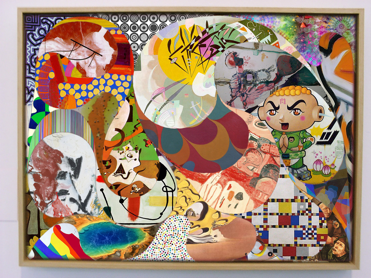 composed from various artworks by people like Dali, Miro, Kandinsky, etc..